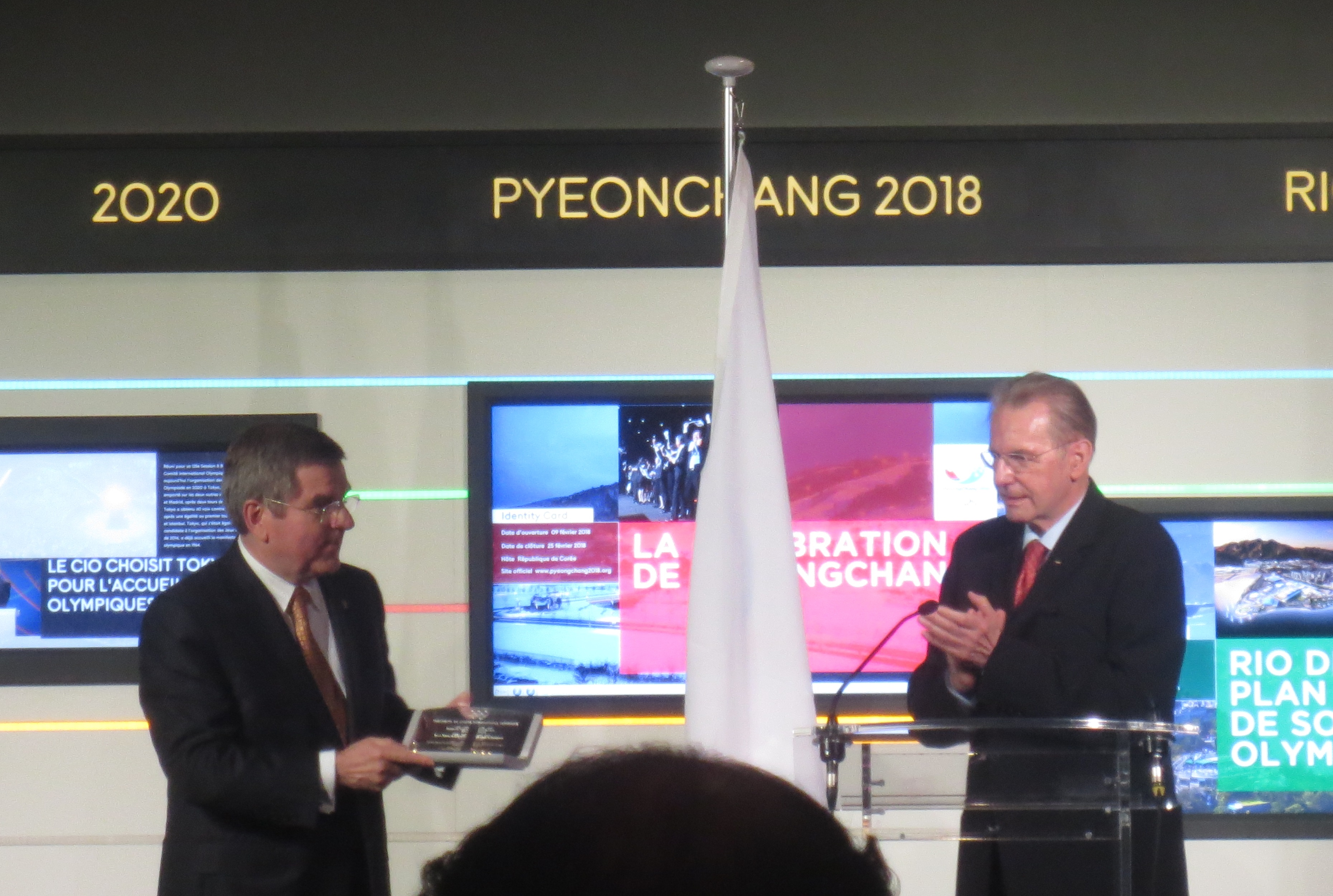 Jacques Rogge and Thomas Bach at the inauguration of the new Olympic Museum in Lausanne, where Bach receives keys to the IOC.